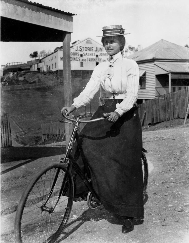 Woman cycling in Brisbane, 1890-1900 Woman, dressed in a long skirt and blouse with a hat, riding a bicycle along an unsealed road. In the background are timber dwellings with a large shed belonging to J.Storie, who made window sashes, doors and mouldings.